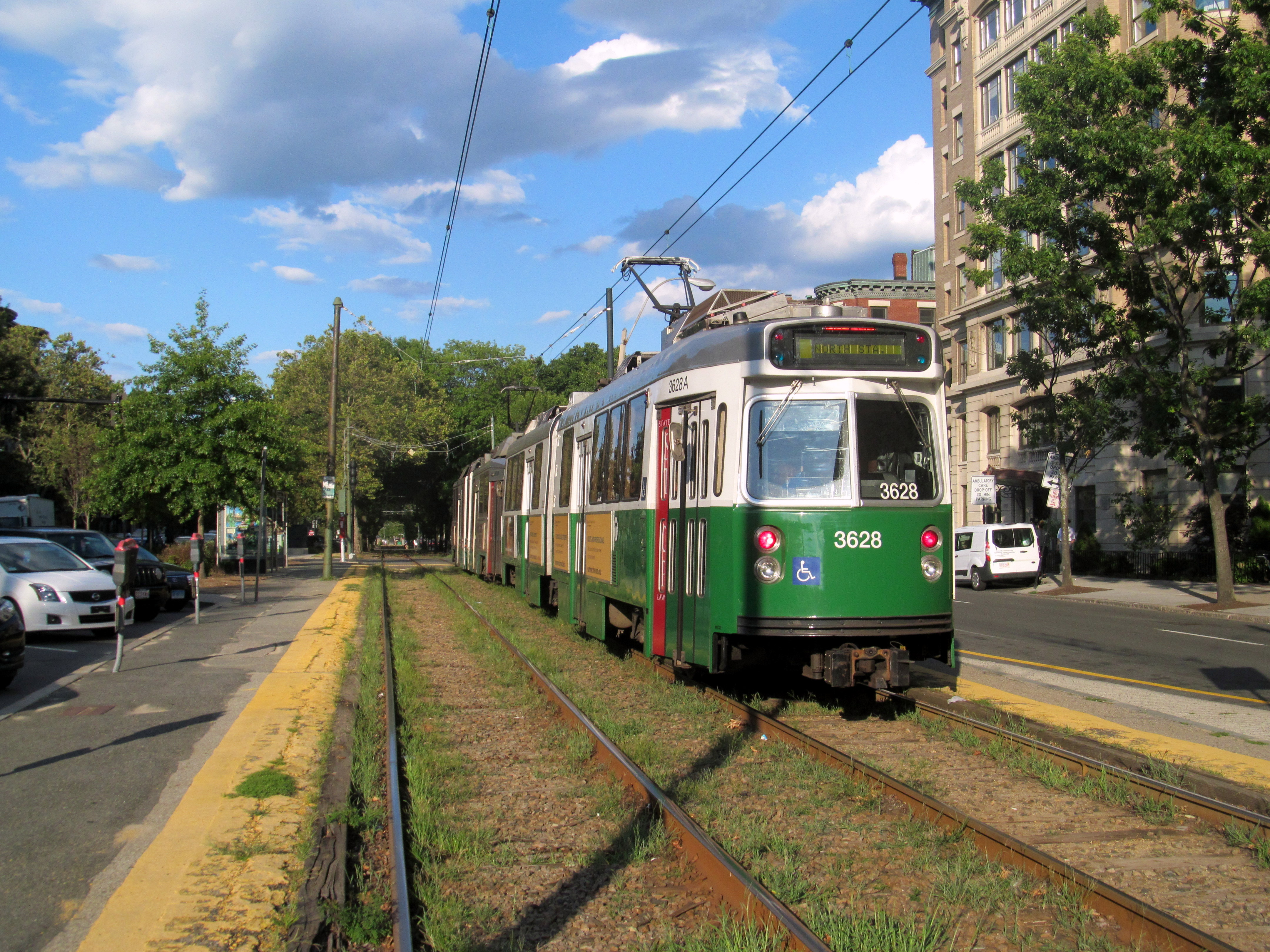 Inbound train at Hawes Street station in August 2016